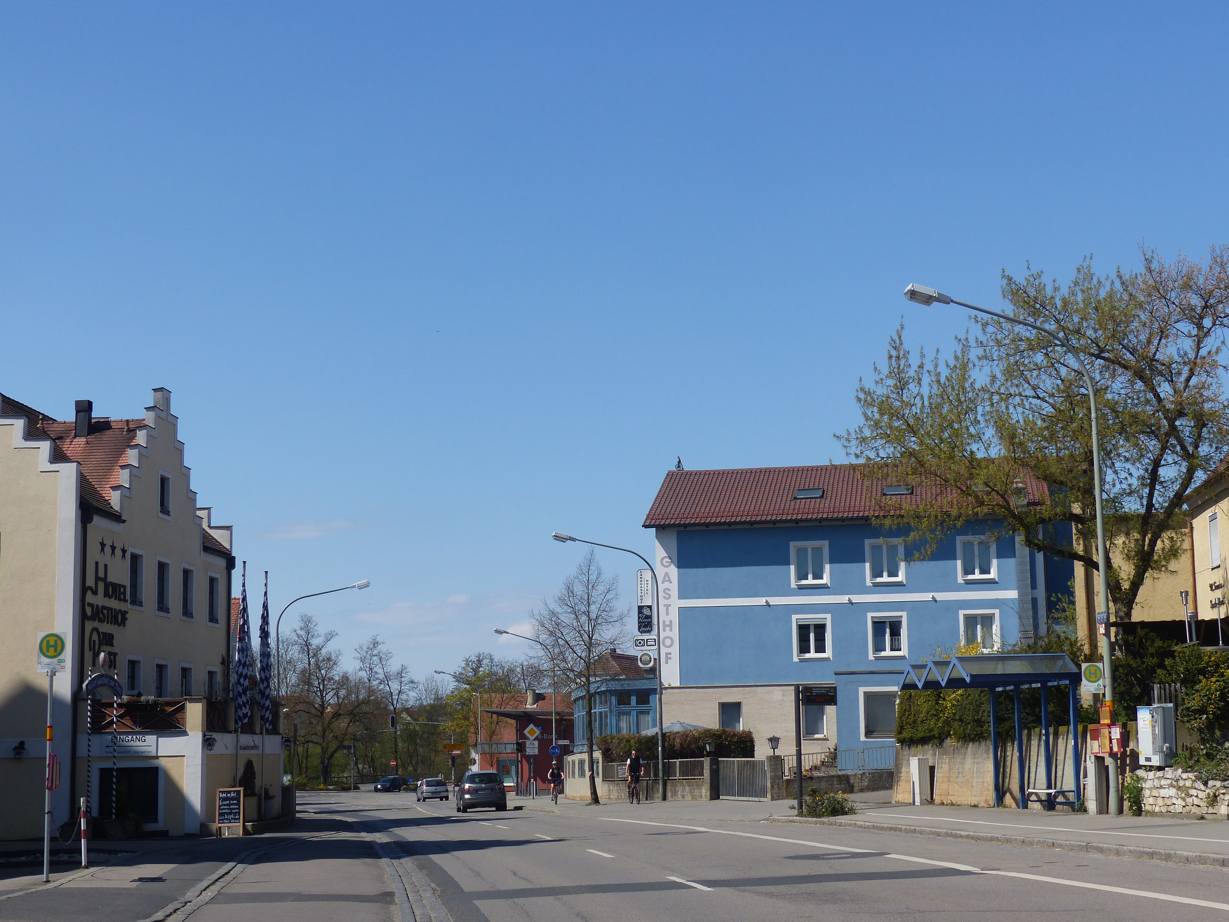 The Vilstalstraße in the village Haselmühl, a district of the municipality of Kümmersbrück.